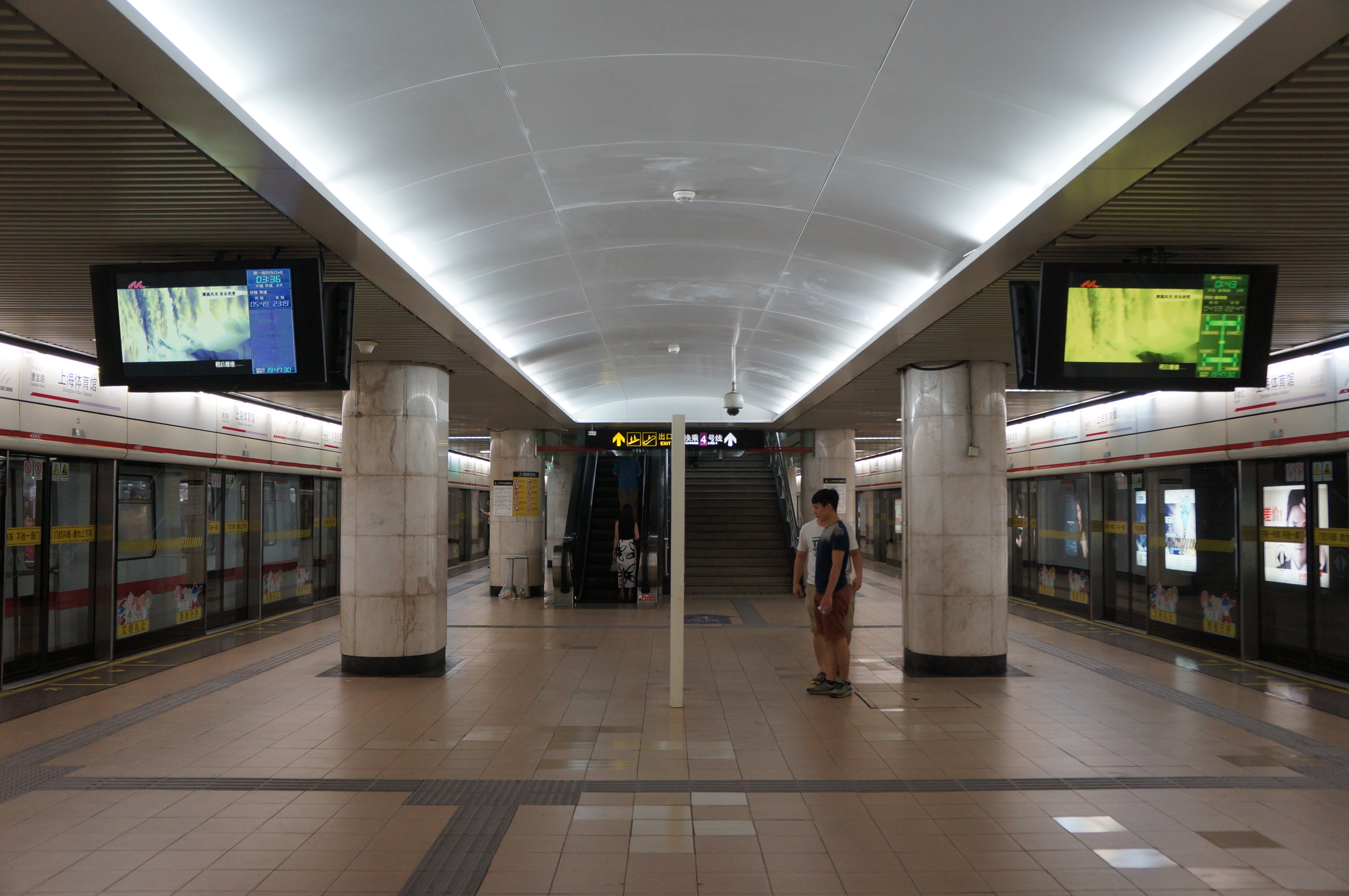 201609 Platform for L1 at Shanghai Indoor Stadium Station